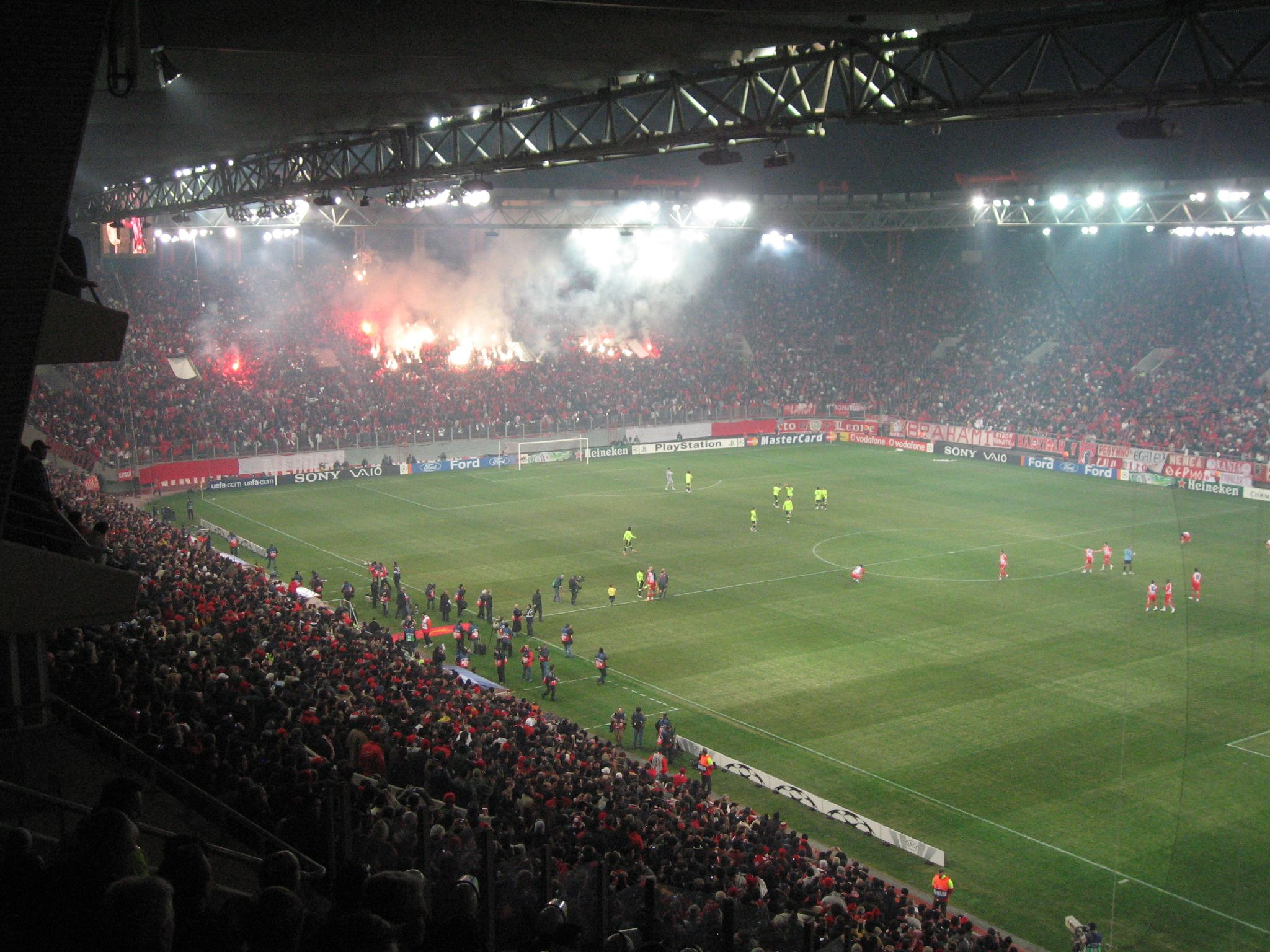 Champiosn League 2007-08 match between Olympiakos and Chelsea FC, in Georgios Karaiskakis Stadium. Result was 0-0.